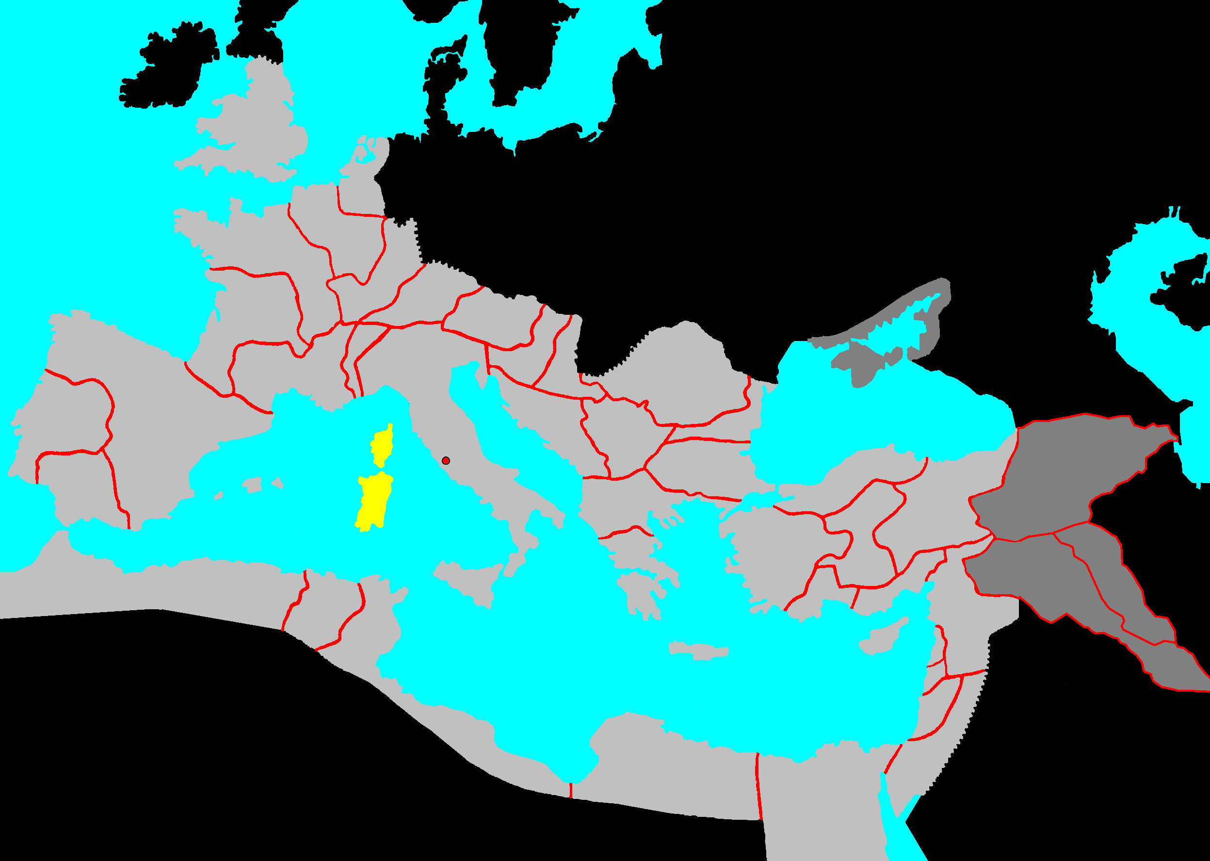 Description: provinces of the Roman Empire (Imperium Romanum) Source: own work Date: December 2005 Author: --Immanuel Giel 11:21, 13 December 2005 (UTC) Other versions: none